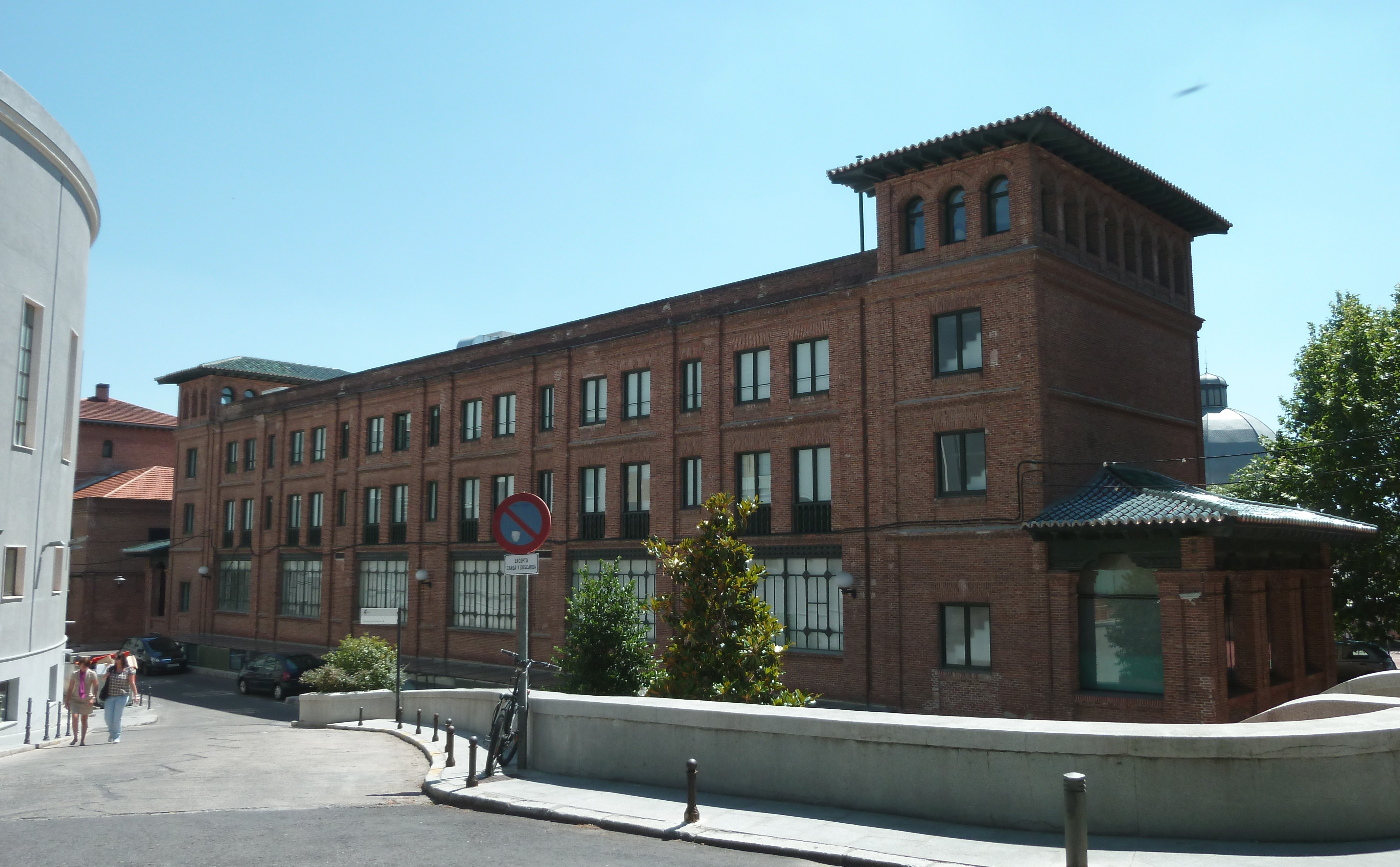 The Pabellón Transatlántico (literally "Transatlantic Building") of Residencia de Estudiantes in Madrid (Spain).